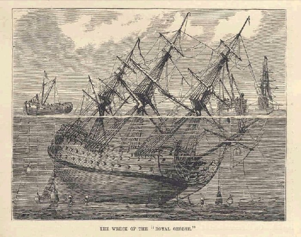 Wreck of the 'Royal George' Subject: Royal George (Ship), Shipwrecks Tag: Expositions